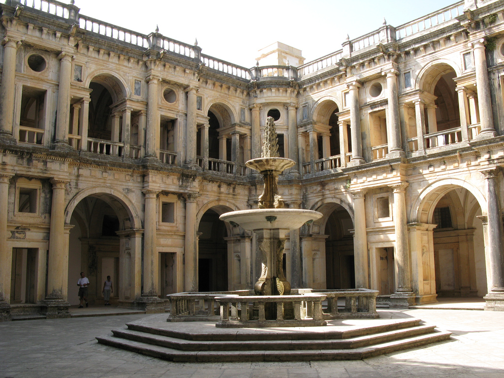 Renaissance cloisters of Christ Convent, Tomar